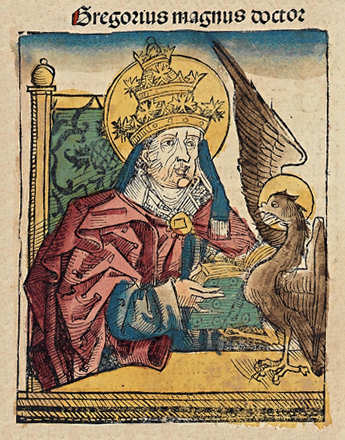 Woodcut from the Nuremberg Chronicle